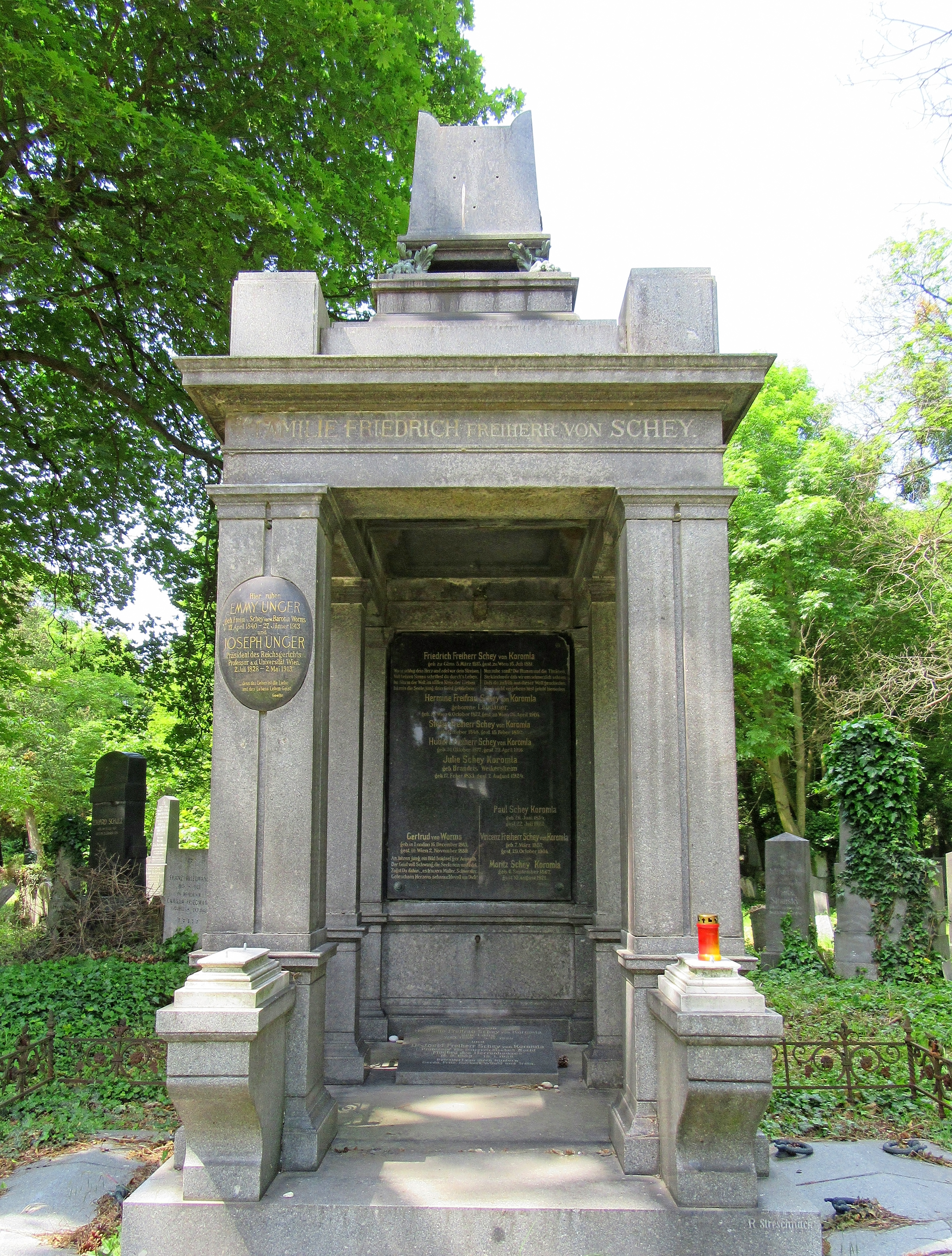 Mausoleum of the Schey von Koromla family in the old Jewish part of the Vienna Central Cemetery: Friedrich Schey von Koromla (banker, merchant and entrepreneur; 1815, Kőszeg–1881, Vienna); Hermine Schey von Koromla (nèe Landauer; 1822, Vienna–1904, Vienna); Stefan Schey von Koromla (1848–1892); Hubert Schey von Koromla (1877–1916); Julie Schey-Koromla (née Brandeis-Weikersheim; 1853–1924); Paul Schey-Koromla (entrepreneur; 1854–1922); Gertrud von Worms (1863, London–1889, Vienna); Vincenz Schey von Koromla (1857–1904); Moritz Schey-Koromla (1867–1921); Henriette Schey von Koromla (née Lang; 1856–1934); Josef Schey von Koromla (jurist and university professor; 1853–1938); Emmy Unger (née Schey; widowed Baroness Worms; 1840–1913; Joseph Unger (President of the Supreme Court of the Empire and university professor; 1828–1913)